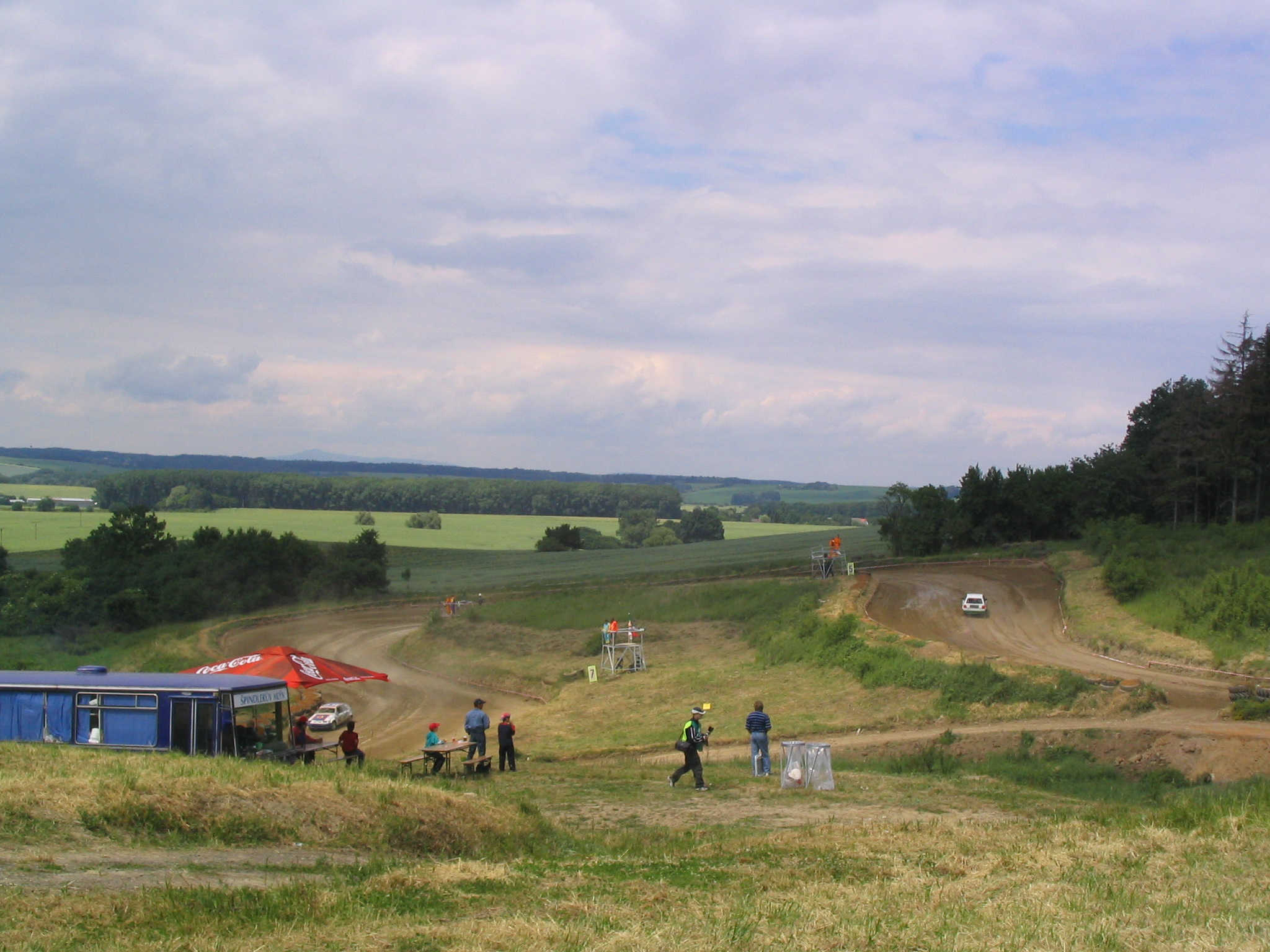 autocross racing in Dolni Bousov, Czech Republic